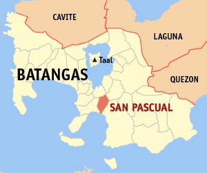 Map of Batangas showing the location of San Pascual